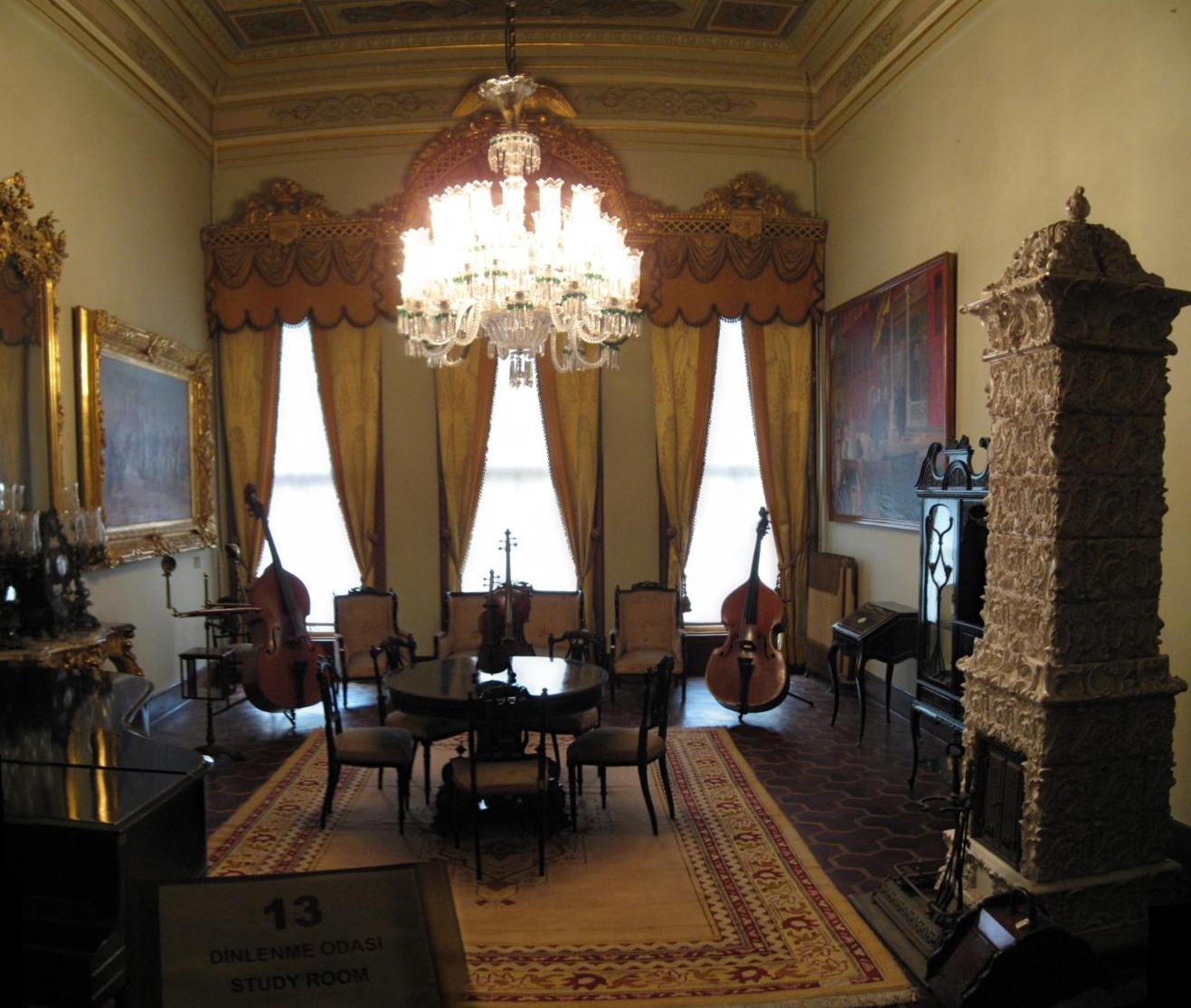 Study room (Dinlenme Odası) in Dolmabahçe Palace. (#13 of the tour).